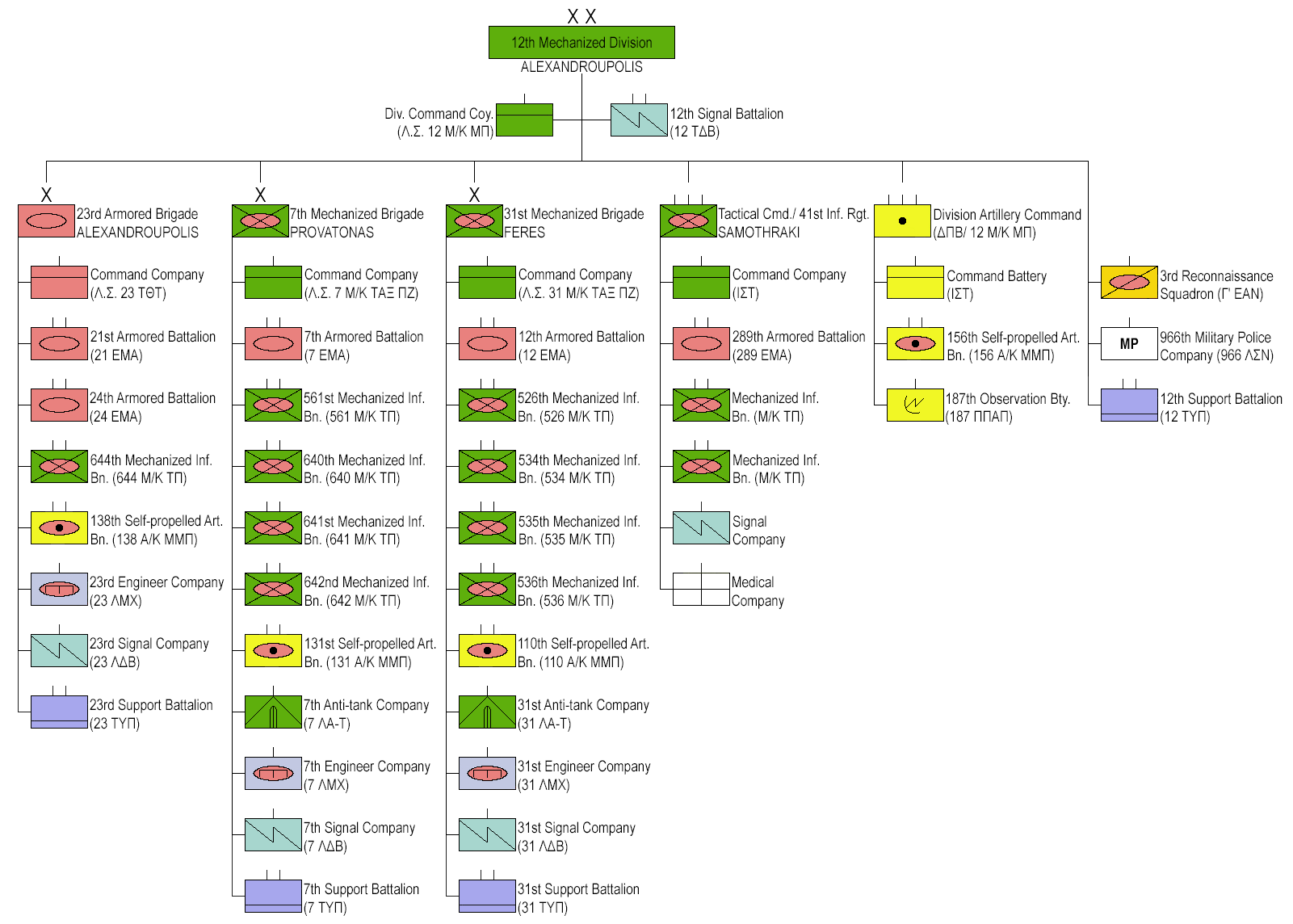 Hellenic Army XII Mechanized Infantry Division